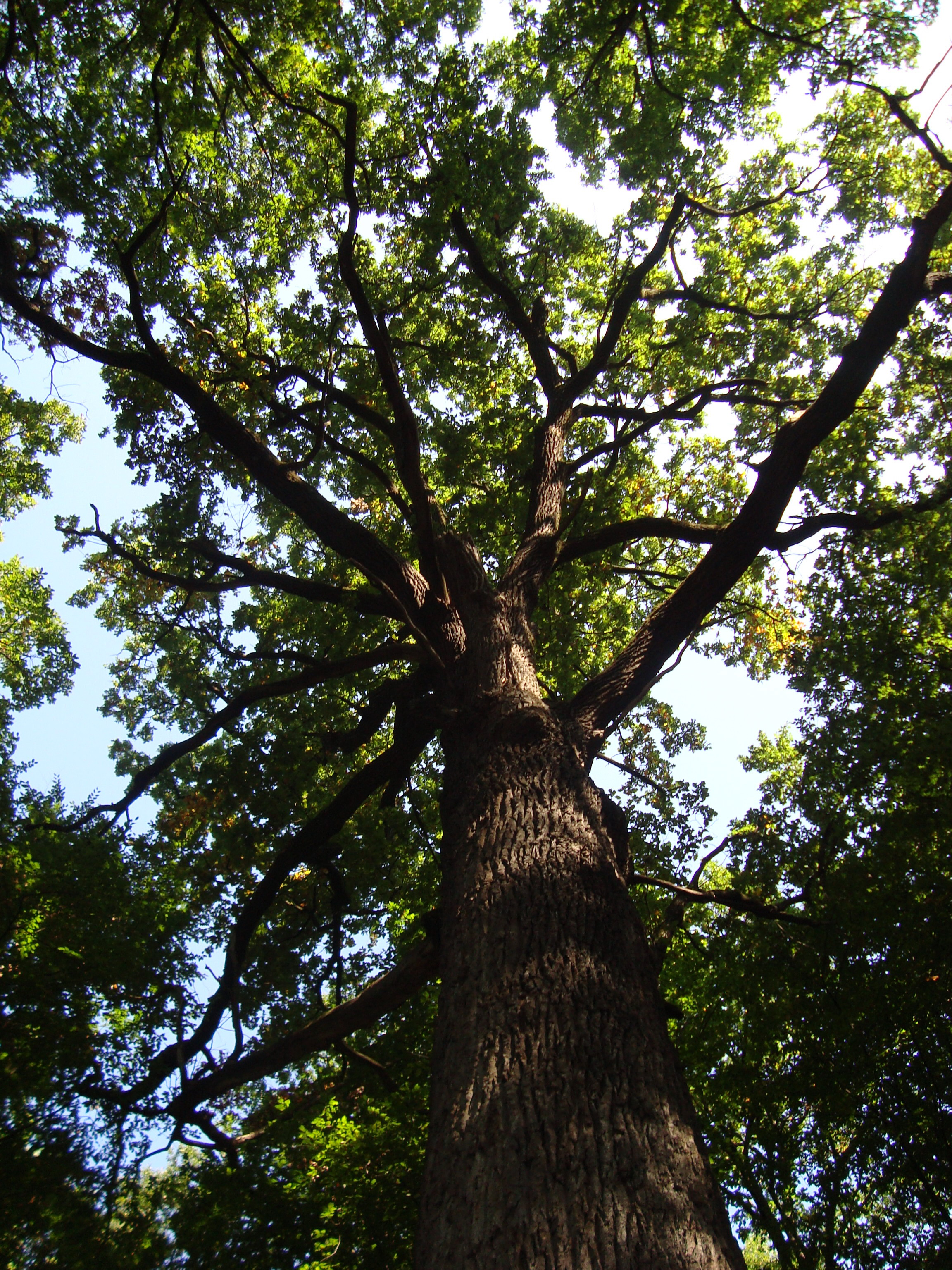 Cosmin Forest - Stephen the Great's Oak